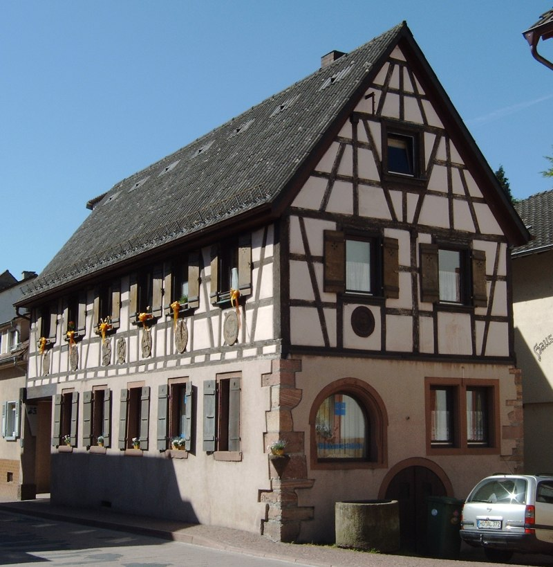 Post house in Schönau (Odenwald)